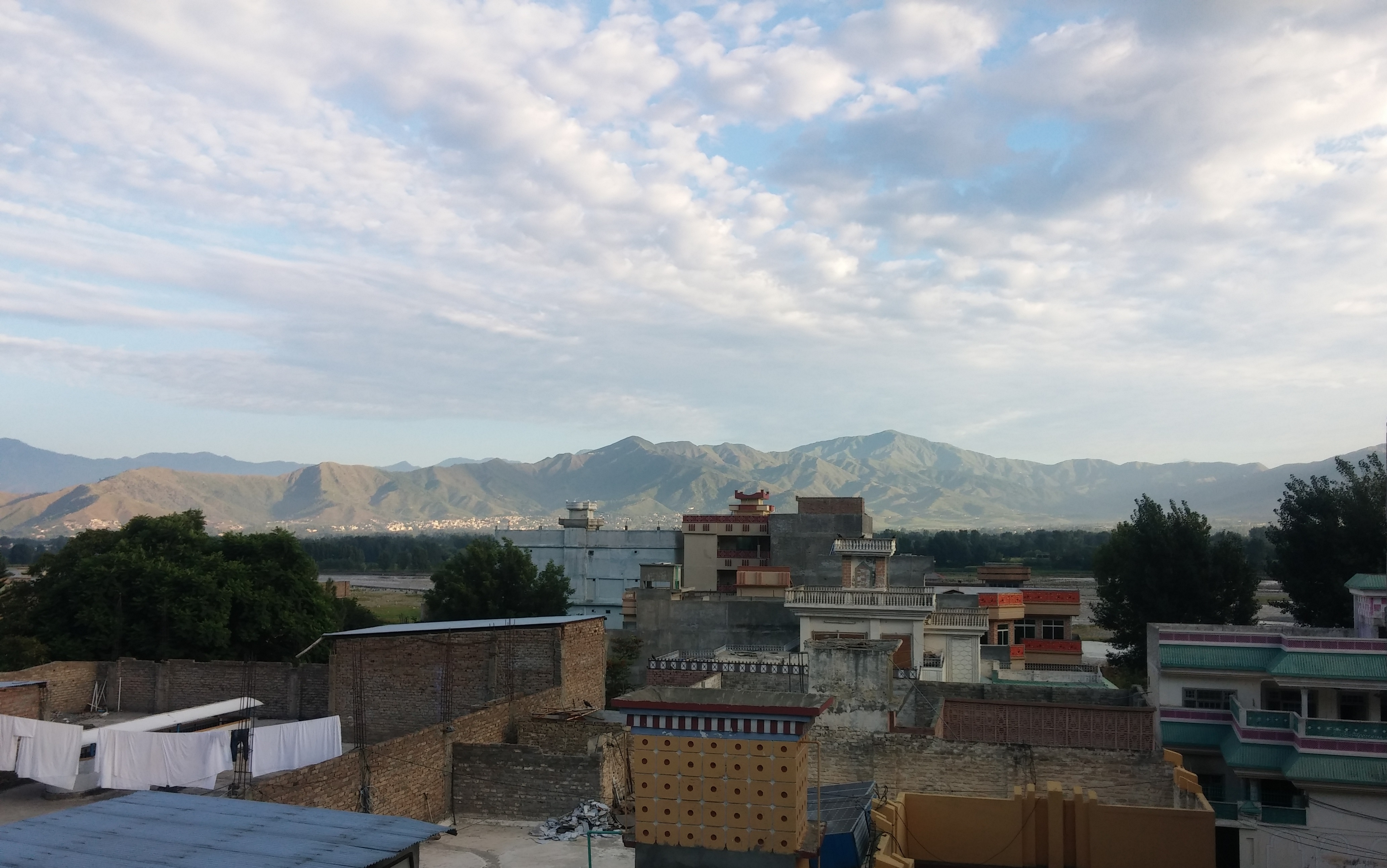 This picture was taken at Mingora, Swat, Pakistan in August 2016. Camera was Mobile LG G2.